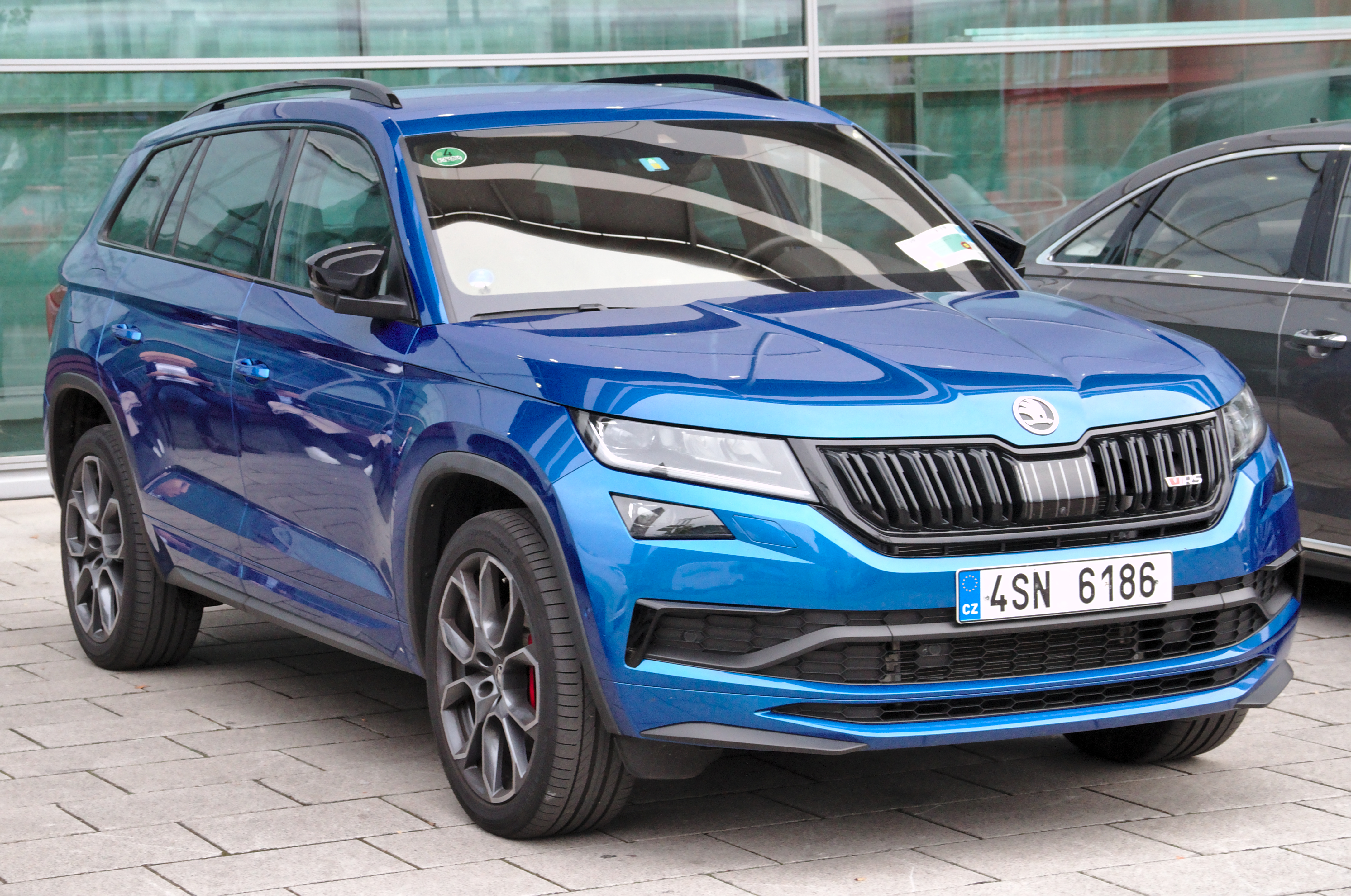 Skoda_Kodiaq_RS at IAA 2019